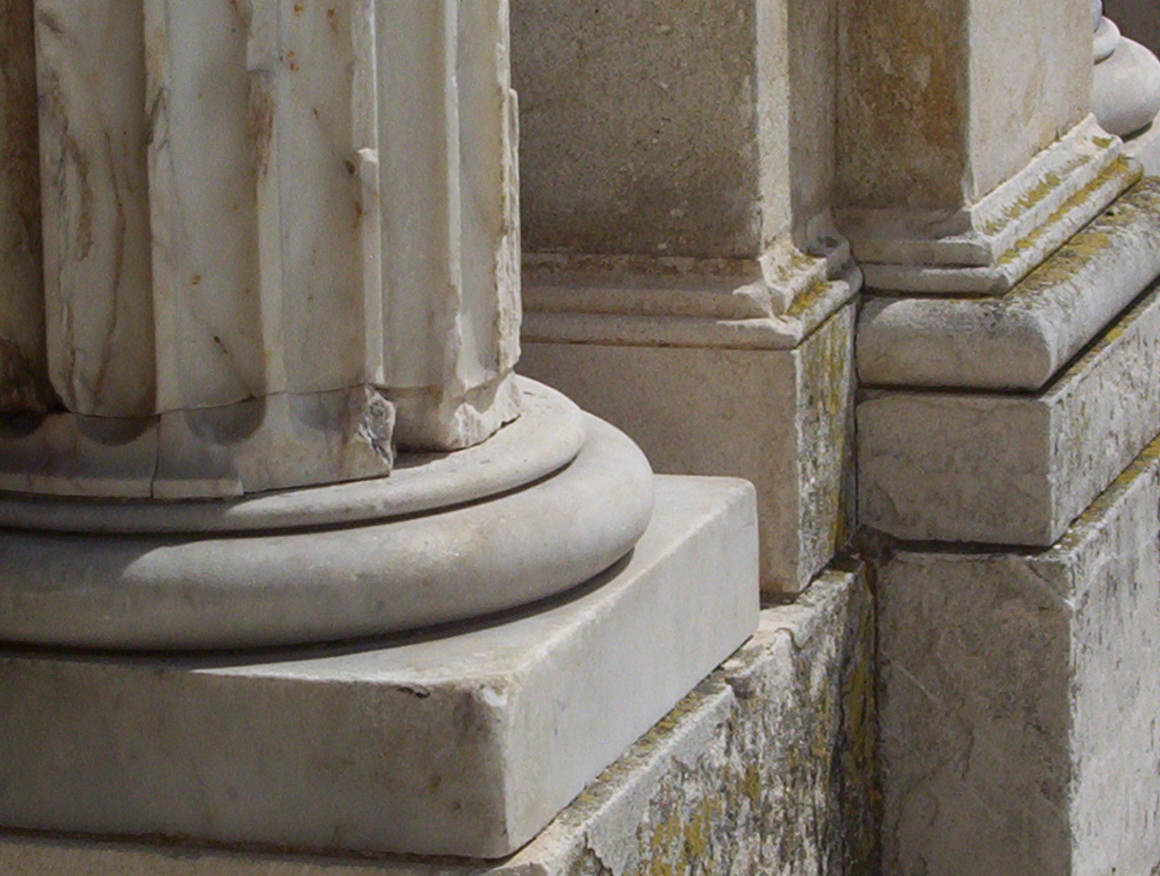 villa Farsetti's column